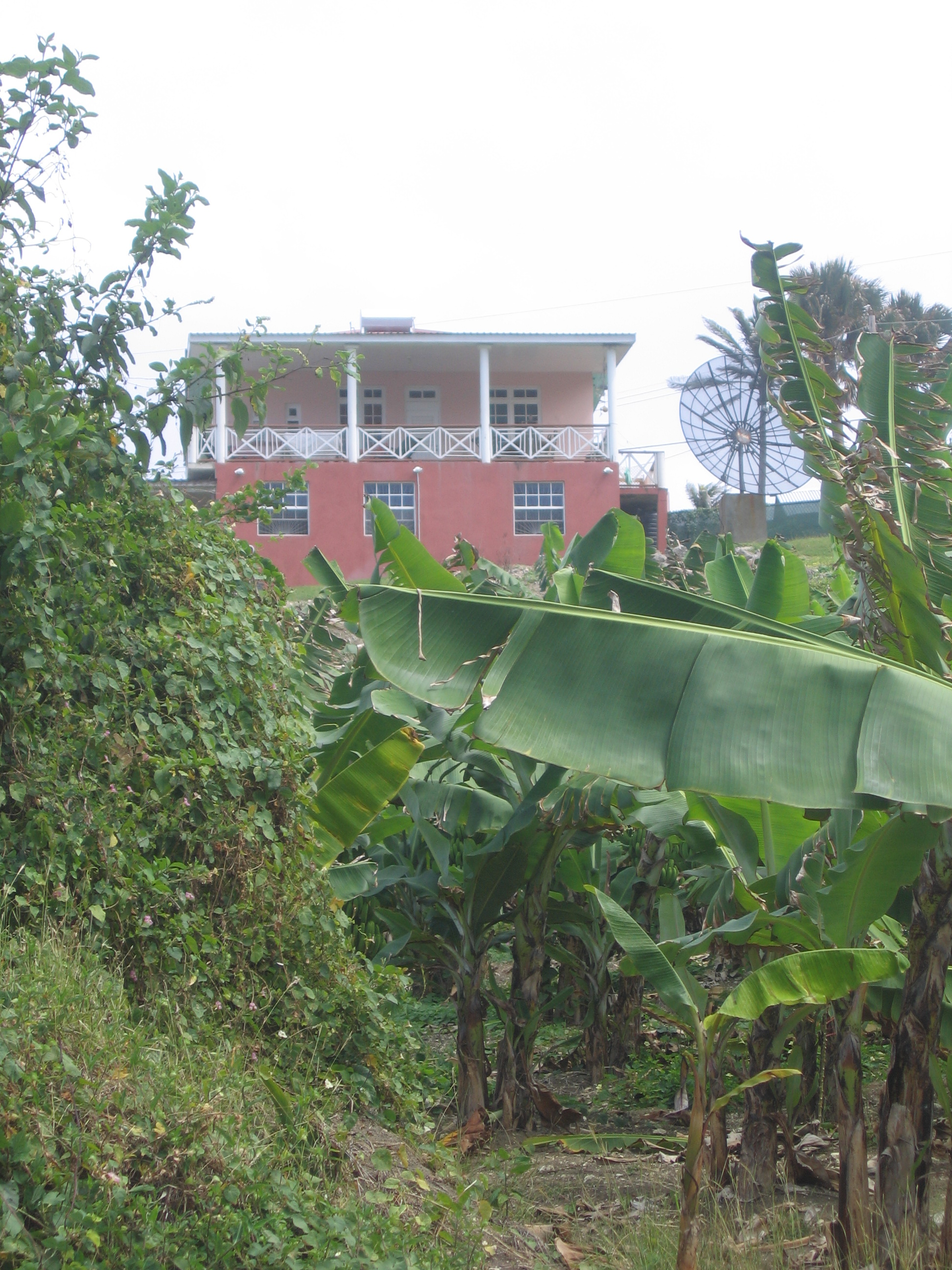 House in Bathsheba, Saint Joseph, Barbados.